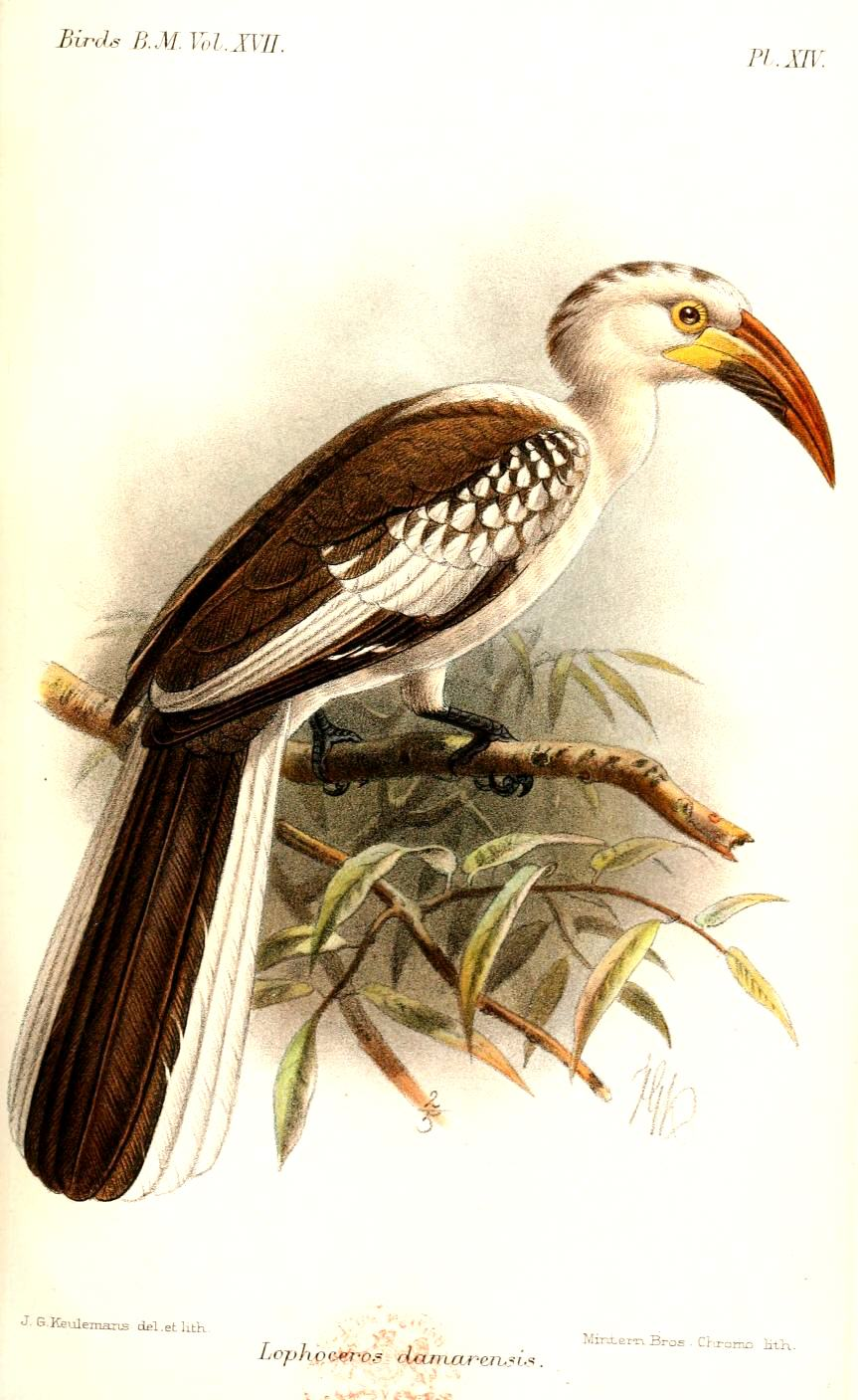 The Damara Red-billed Hornbill, at times treated as a race of the Red-billed Hornbill